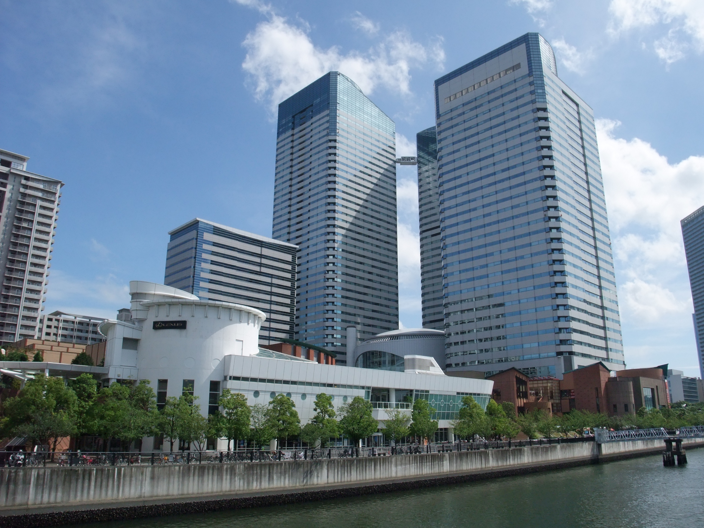 Harumi Island Triton Square in Chuo-ku, Tokyo